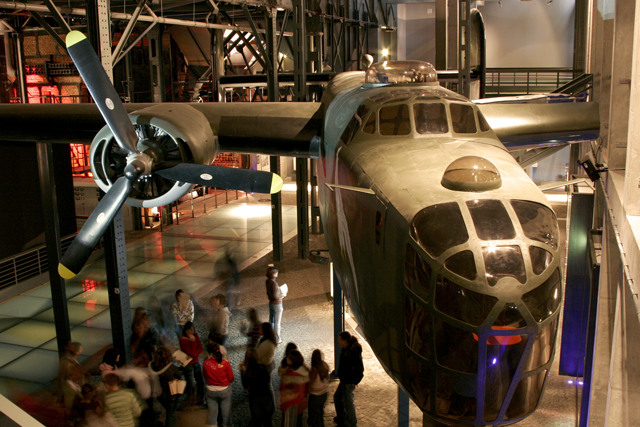 B-24 Liberator 1:1 replica, in the Warsaw Uprising Museum in Warsaw